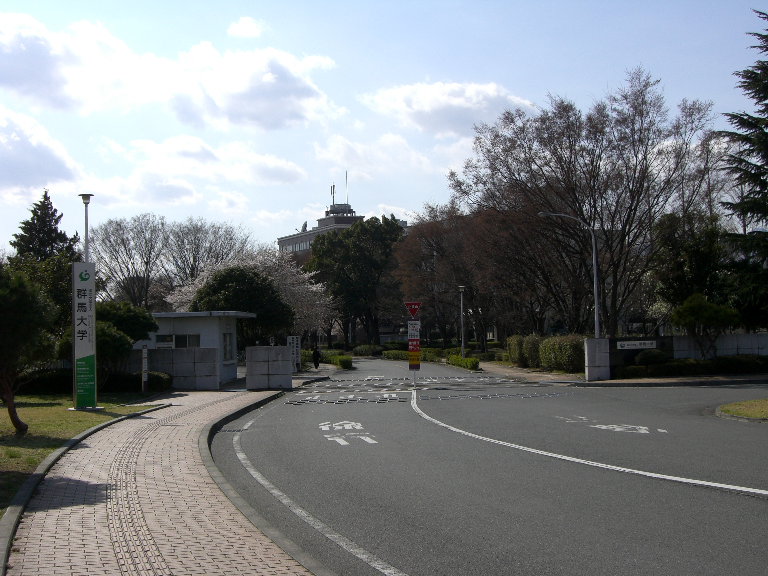 The main gate of Aramaki Campus, Gunma University. Located in Maebashi, Gunma, Japan. Photograph taken by the original uploader in April 2008.